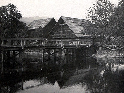 The old house Brugger, now a fishing museum, at the western end of Lake Millstatt in Seeboden / Carinthia / Austria / European Union.